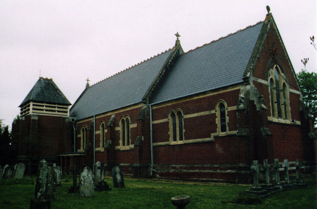 All Saints' parish church, Hordle, Hampshire, seen from the southeast